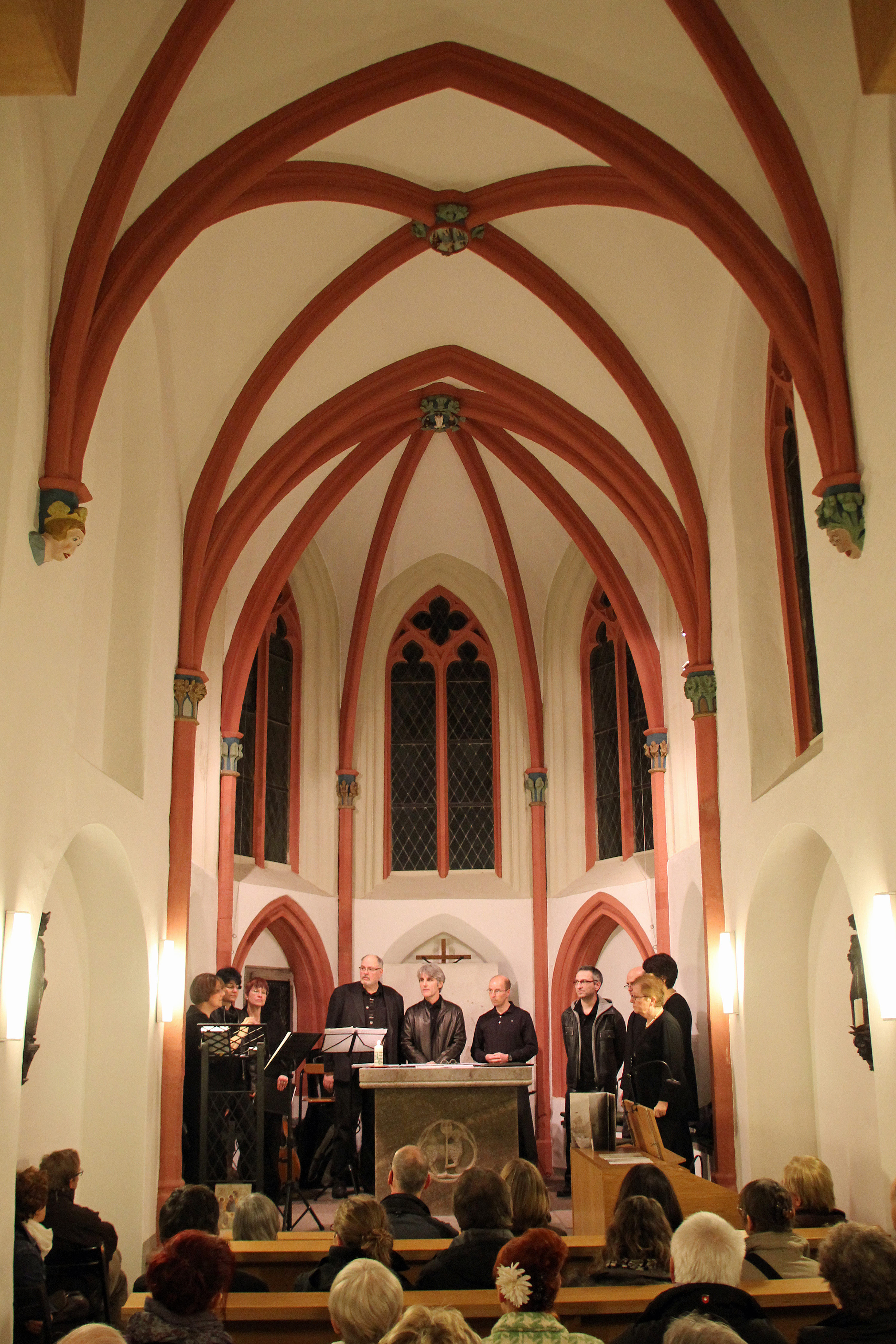 St. Jakobus chapel in Koblenz